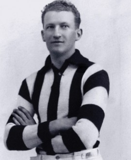 Photograph of Frank Murphy from 1925-1934